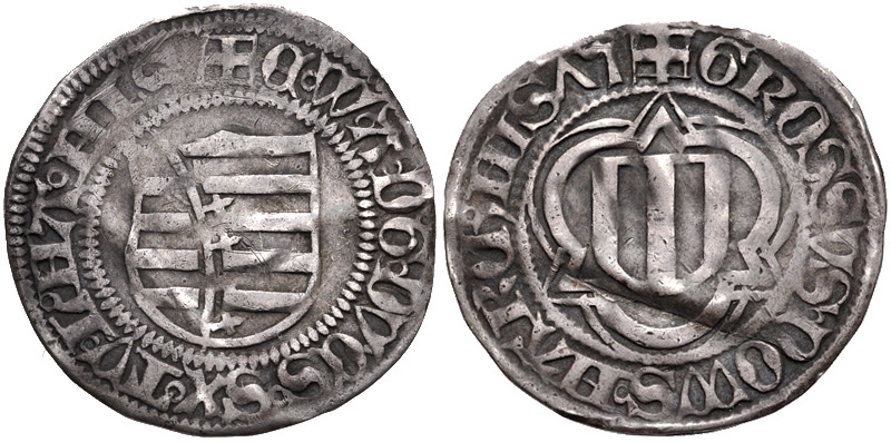 GERMANY, Sachsen (Kurfürstentum und Herzogtum). Ernst, with Albrecht and Wilhelm III. 1464-1486. AR Spitzgroschen (20mm, 1.37 g, 10h). Freiberg mint. Dated (14)Λ5 (1475). Coat-of-arms / Coat-of-arms within trilobe. Levinson I-145. Good VF, toned, slightly bent flan.